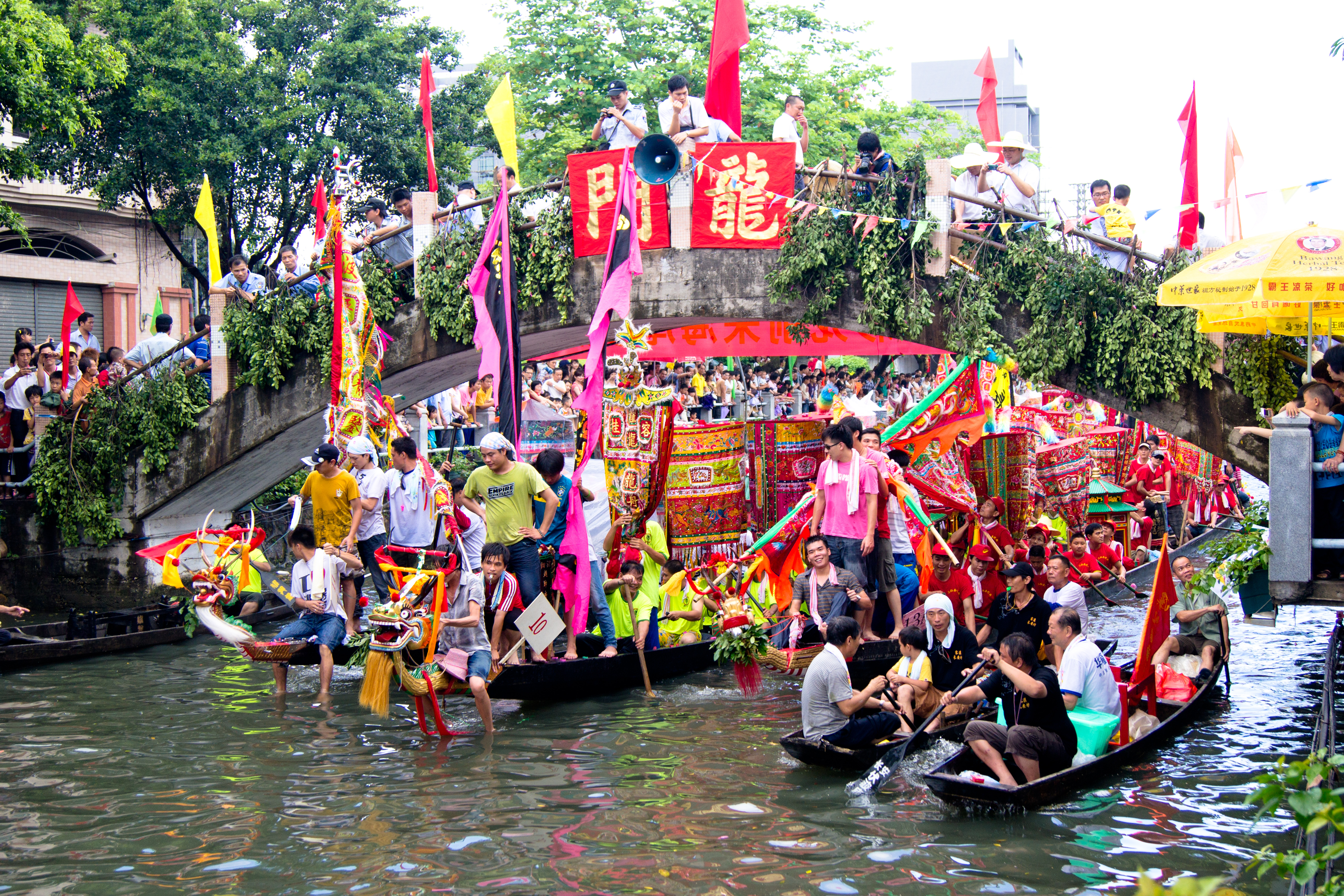 Dragon Boat Festival in Haiwei, Ronggui, 2011. Several boats were passing through the Dragon Gate (龍門).